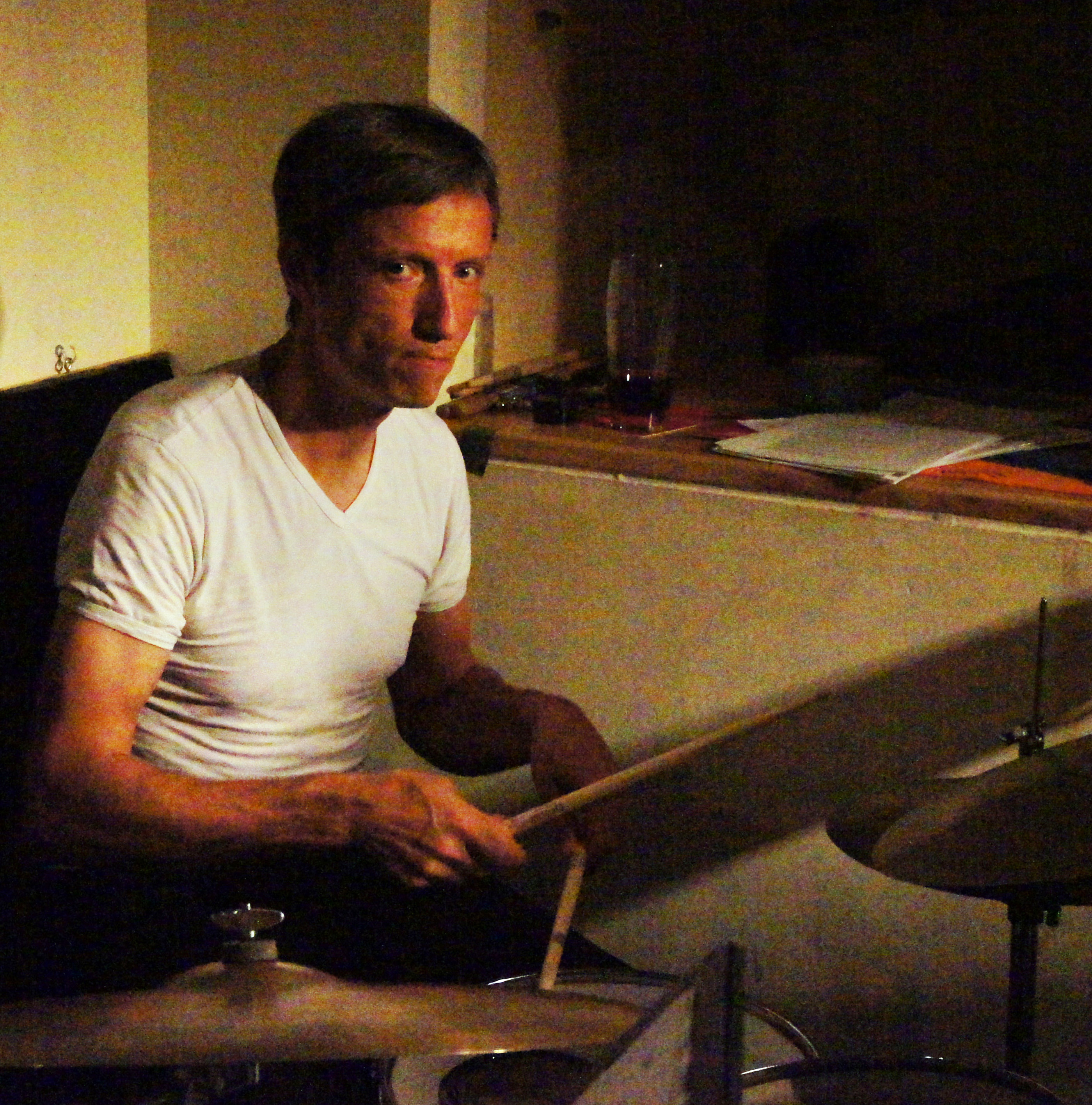 See filename and description of category.